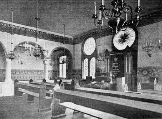 Jewish Hospital synagogue in Wrocław